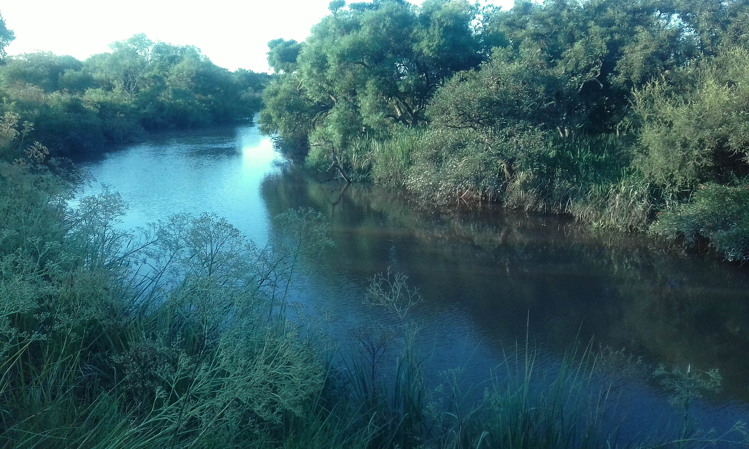 Arroyo El Pescado, en el partido de Berisso, a la altura de la ruta provincial 15.